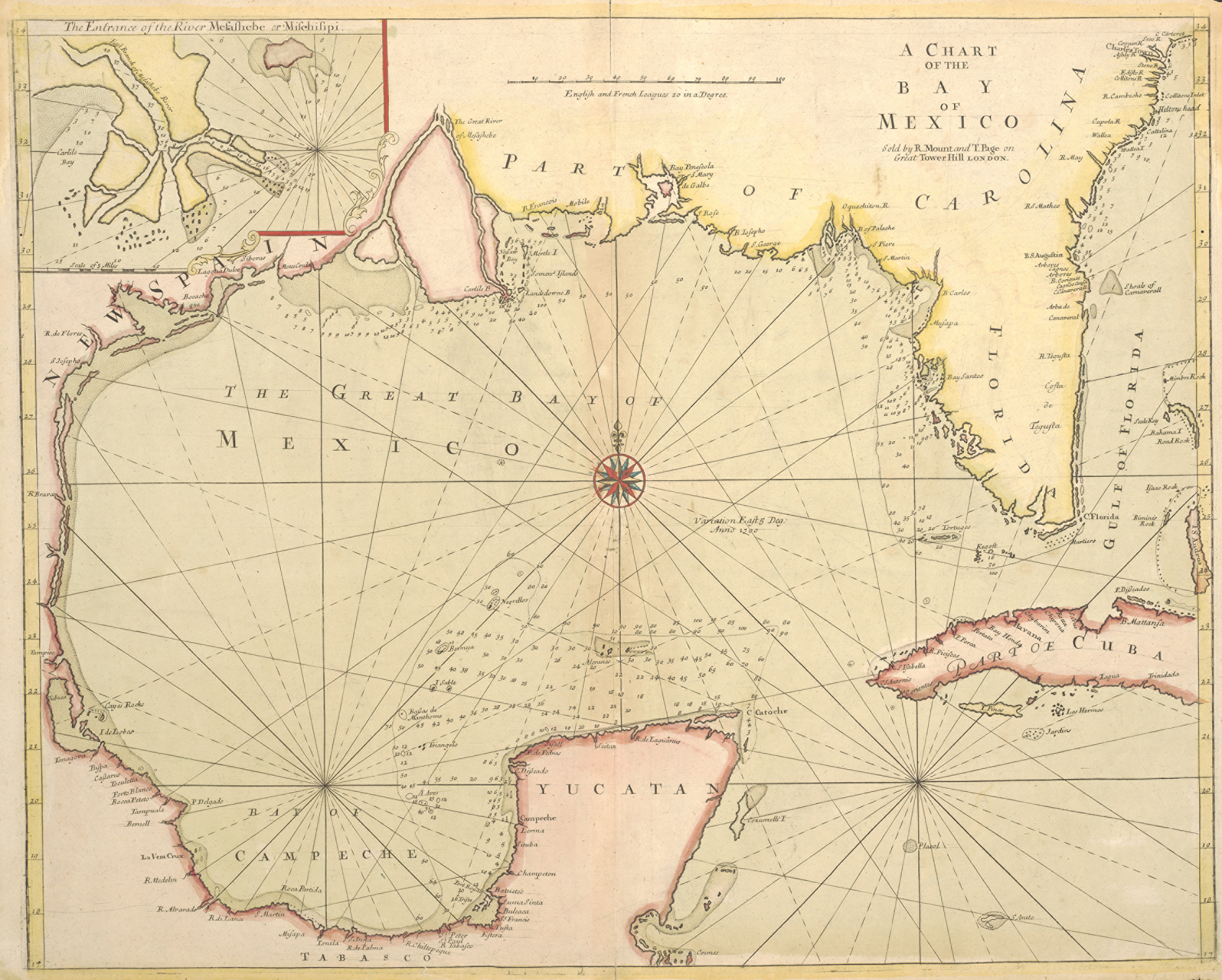 Until the publication of Guillaume Delisle's famous map Carte de la Louisiane of 1718, this English sea chart was the best printed map available of the Gulf Coast and the mouth of the Mississippi. The British book, map, and chart-making and publishing firm of Mount & Page may have issued the map separately as early as 1700 since that date appears to the east of the compass rose in the center of the Gulf. Coastal mapping scholar Jack Jackson speculated that the English probably had access to a captured copy of Spanish pilots Juan Enriquez Barroto's or Juan Bisente del Campo's maps of the Gulf Coast since they reflect Bisente's coastal details and Barroto's toponyms. Jackson also believed that the inset map at upper left may be based upon information from Captain William Bond's 1699 reconnaissance voyage of the mouth of the Mississippi on behalf of Dr. Daniel Coxe's Anglo-Dutch Carolana Company. At that time Bond's ship ascended the river to a point just below New Orleans before Bienville convinced him that the French already controlled the river. Unfortunately, Bond's presumed charts are missing. Mount & Page's chart and its Gulf coast interpretation was also influential for other English chartmakers.